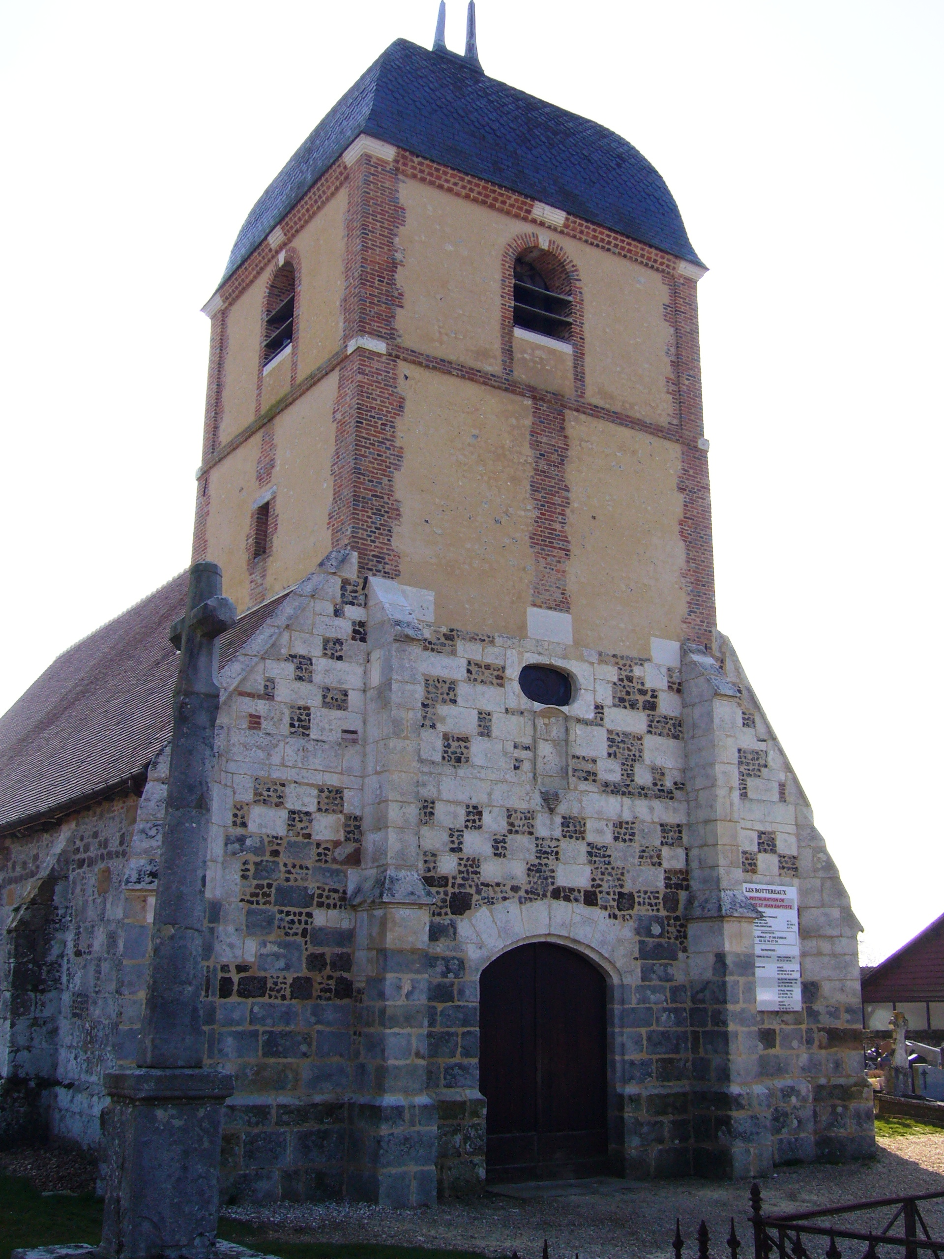 Saint-Jean-Baptiste Church at les Bottereaux (Normandy)